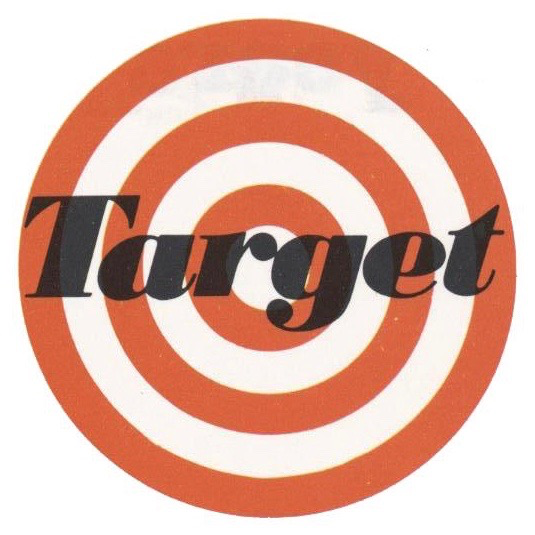 Logo of Target Stores in 1968. Clearly outlines the visual style used by early Target stores and thus material to the History section of the Target Corporation article. At reasonable, practical resolution and compliant with fair use policies. It was enhanced from a version of the logo obtained from Target Corp's interactive history section [1].